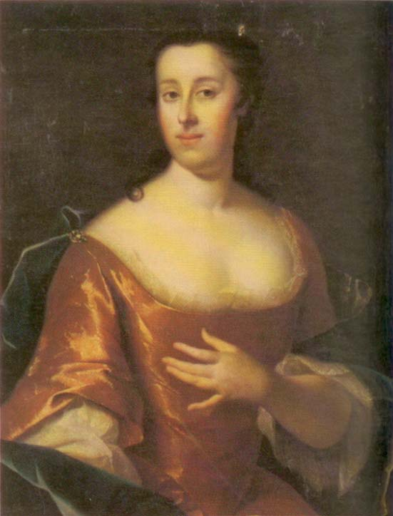 Portrait of Helena Stroganov